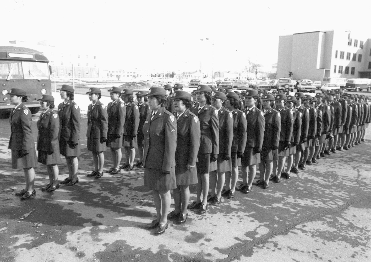 From the back of the photograph: PHOTO FACILITY, Bldg 652, Fort Richardson, Alaska, APO US Forces 98749